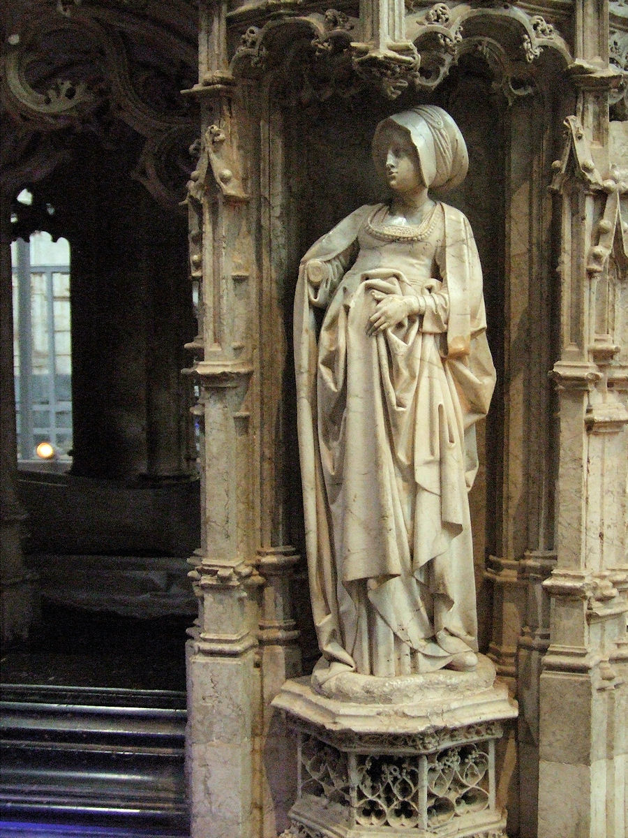 Category:Église de Brou, Bourg-en-Bresse, France - Detail carvings on the tomb